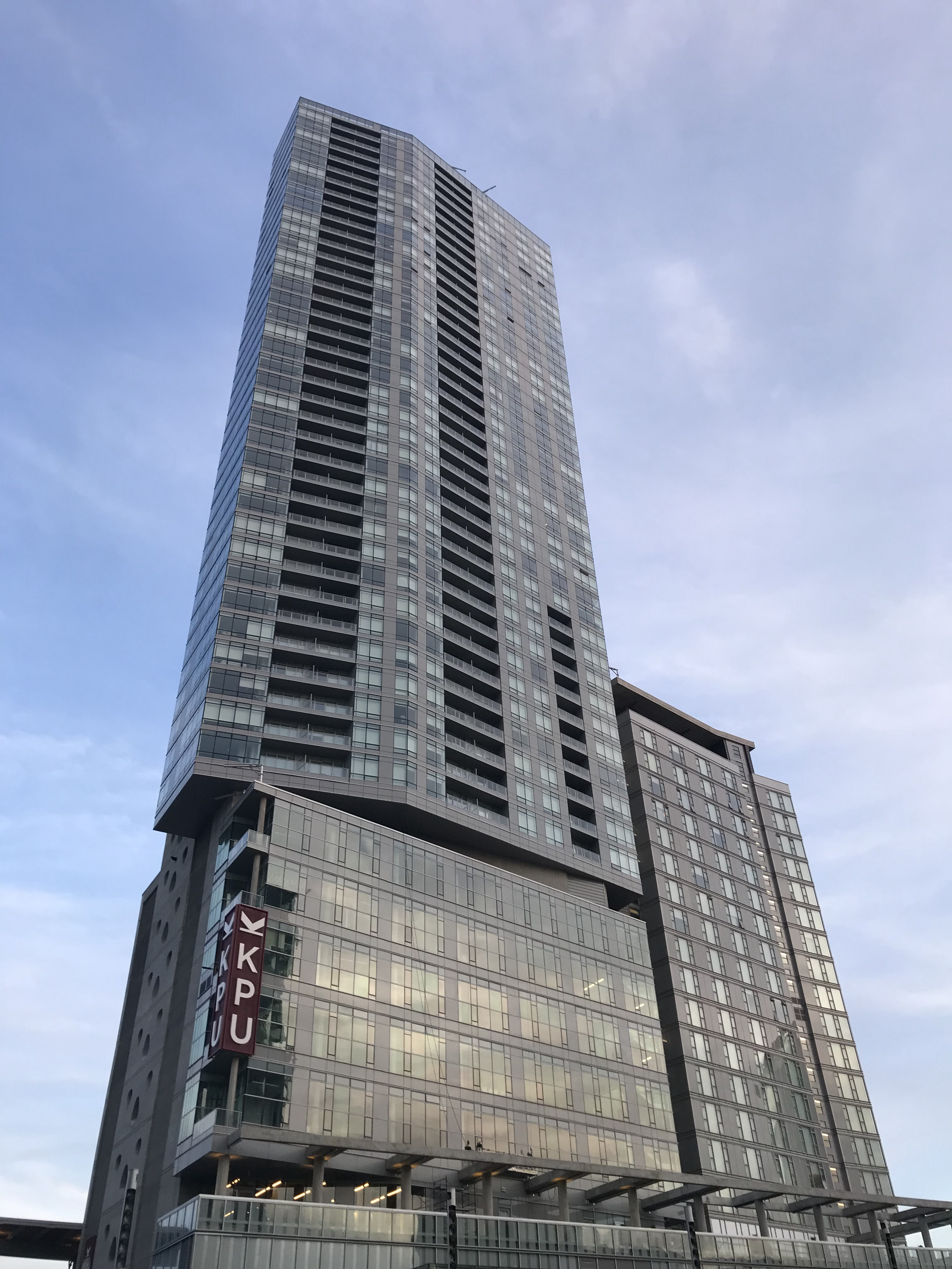 Photo of 3 civic plaza building